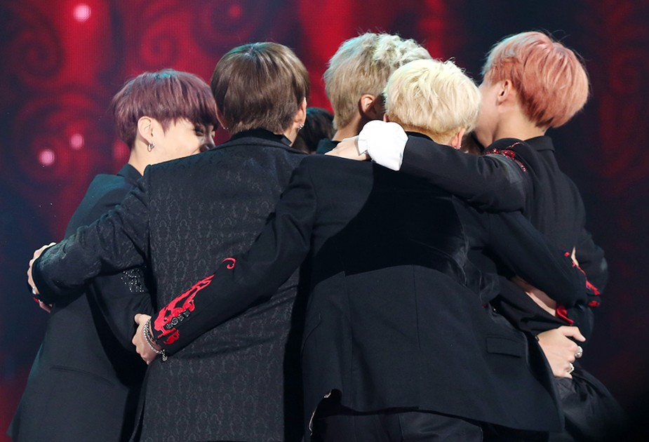 BTS win first Daesang (Grand Prize) at Melon Music Awards, 19 November 2016